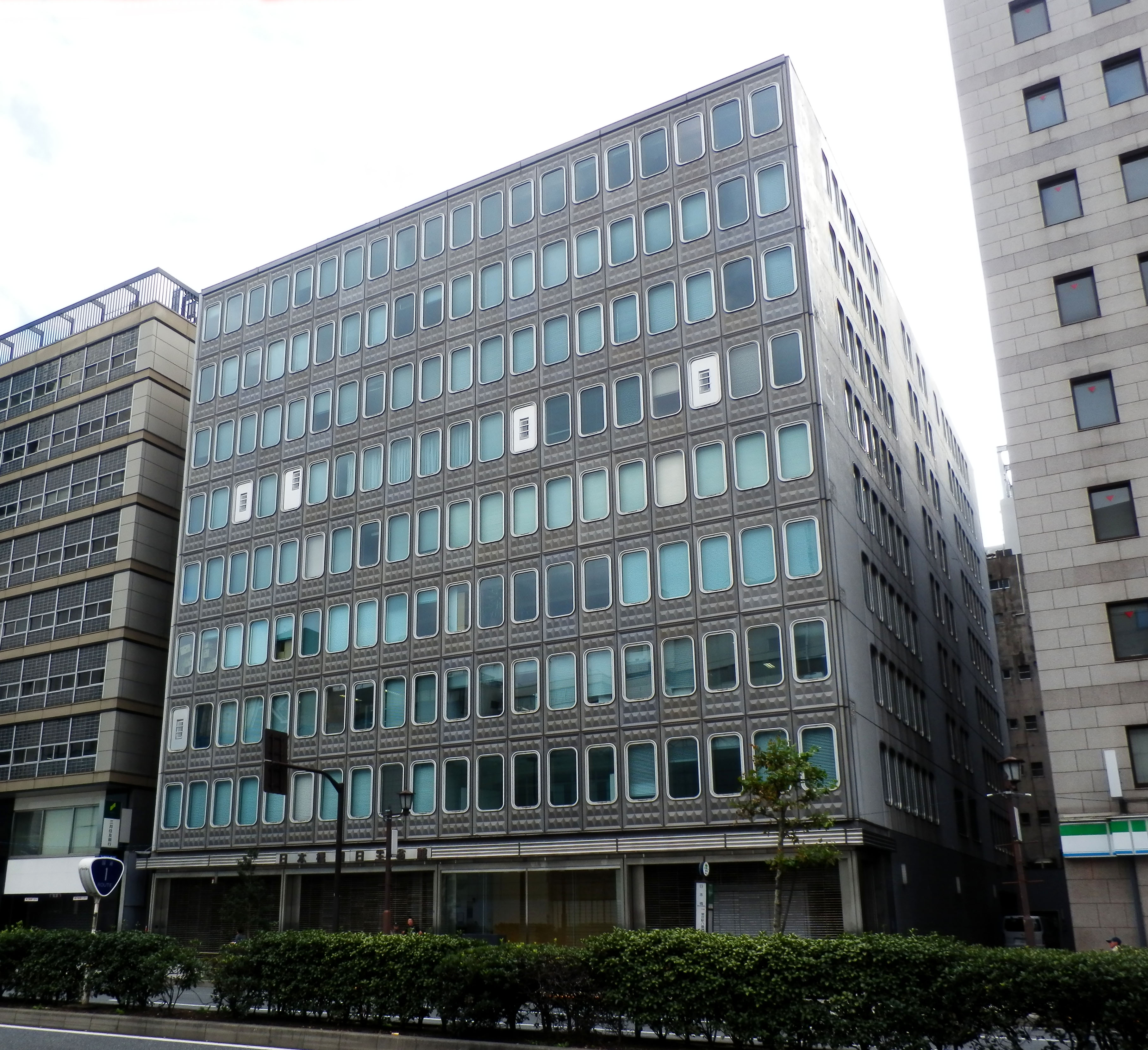 Nihonbashi Asahi-seimei-kan (Office building in Tokyo, Japan)